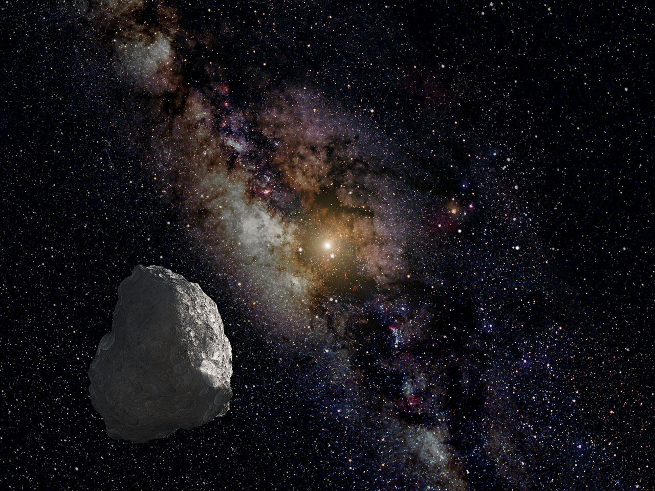 This is an artist's impression of a Kuiper Belt object (KBO), located on the outer rim of our Solar System at a staggering distance of 6.5 billion kilometres from the Sun. Unlike asteroids, KBOs have not been heated by the Sun, and so are thought to represent a pristine, well preserved, deep-freeze sample of what the outer Solar System was like following its birth 4.6 billion years ago. The Sun appears as a bright star at image centre of this graphic, which represents the view from the KBO. The Earth and other inner planets are too close to the Sun to be seen in the illustration. The bright dot to the left of the Sun is the planet Jupiter, and the bright object below the Sun is the planet Saturn. Two bright pinpoints of light to the right of the Sun, midway to the edge of the frame, are the planets Uranus and Neptune, respectively. The planet positions are plotted for late 2018. The Milky Way appears in the background. A Hubble survey has uncovered three KBOs, ranging from 43 to 56 kilometres across, that are potentially reachable by NASA's New Horizons spacecraft after it passes by Pluto in mid-2015. Links: NASA Press release Hubble Tracks Kuiper Belt Object